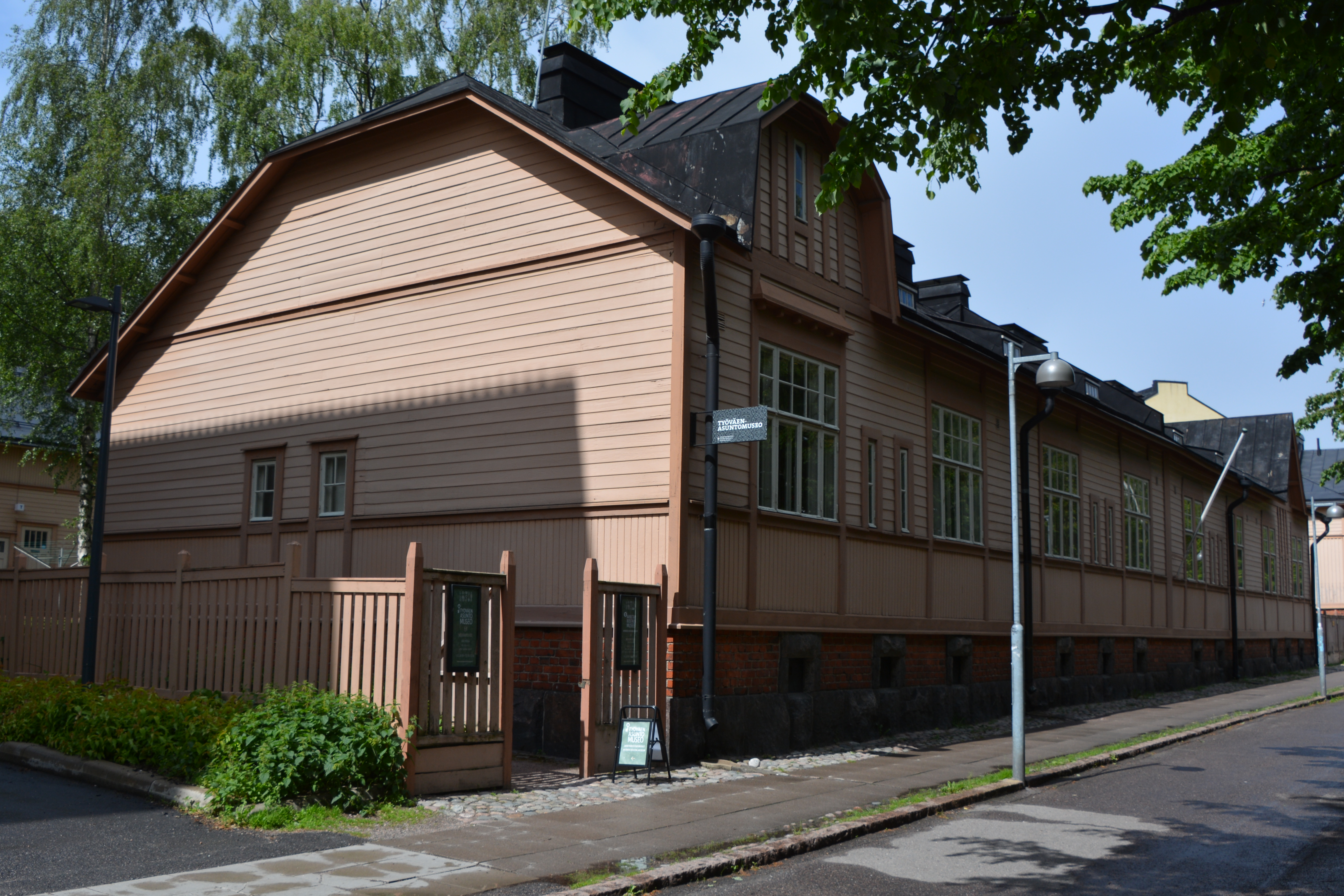 Arbetarbostadsmuseet vid Kristinegränden i Helsingfors